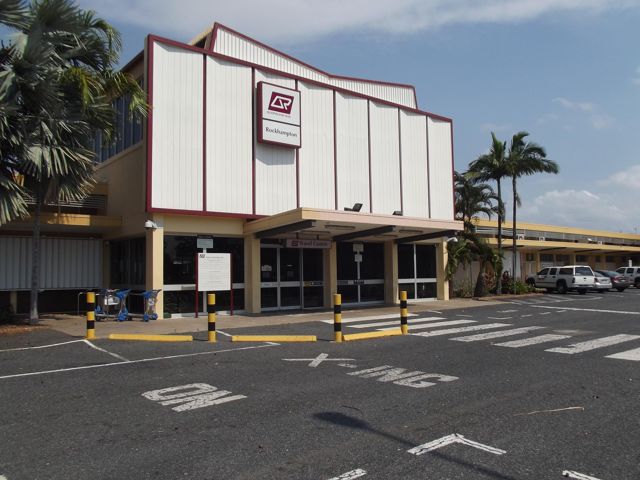 Rockhampton railway station, located in Central Queensland on the North Coast line. The terminus for the electric Tilt Train.